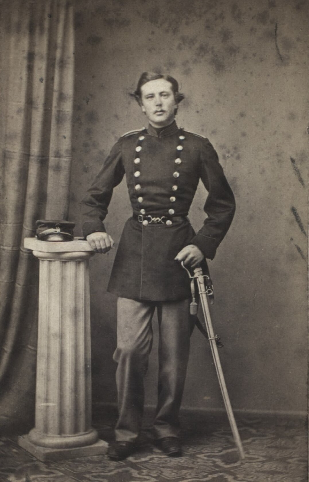 Emil Hohlenberg (1841-1901), Danish photographer